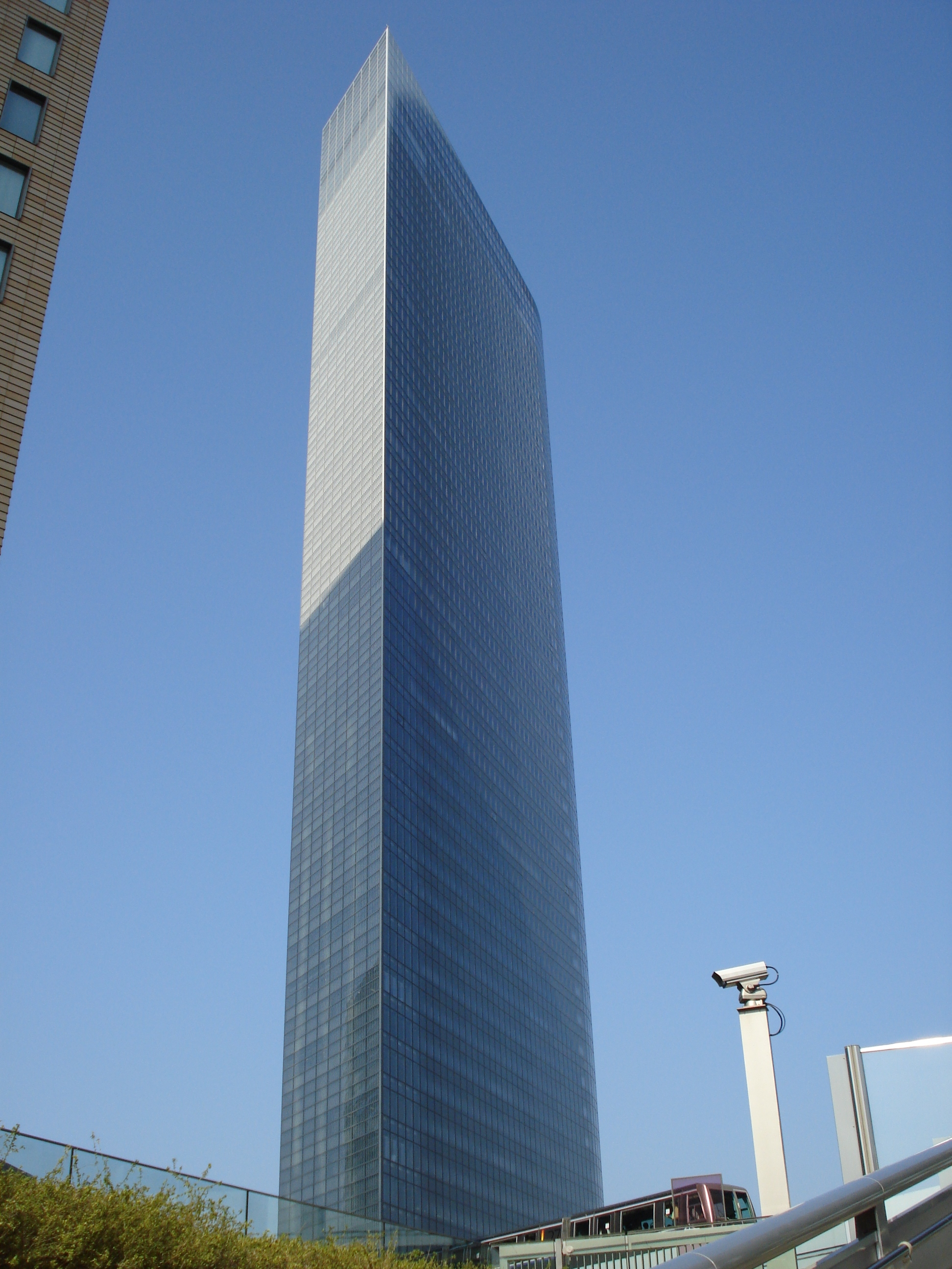 Building